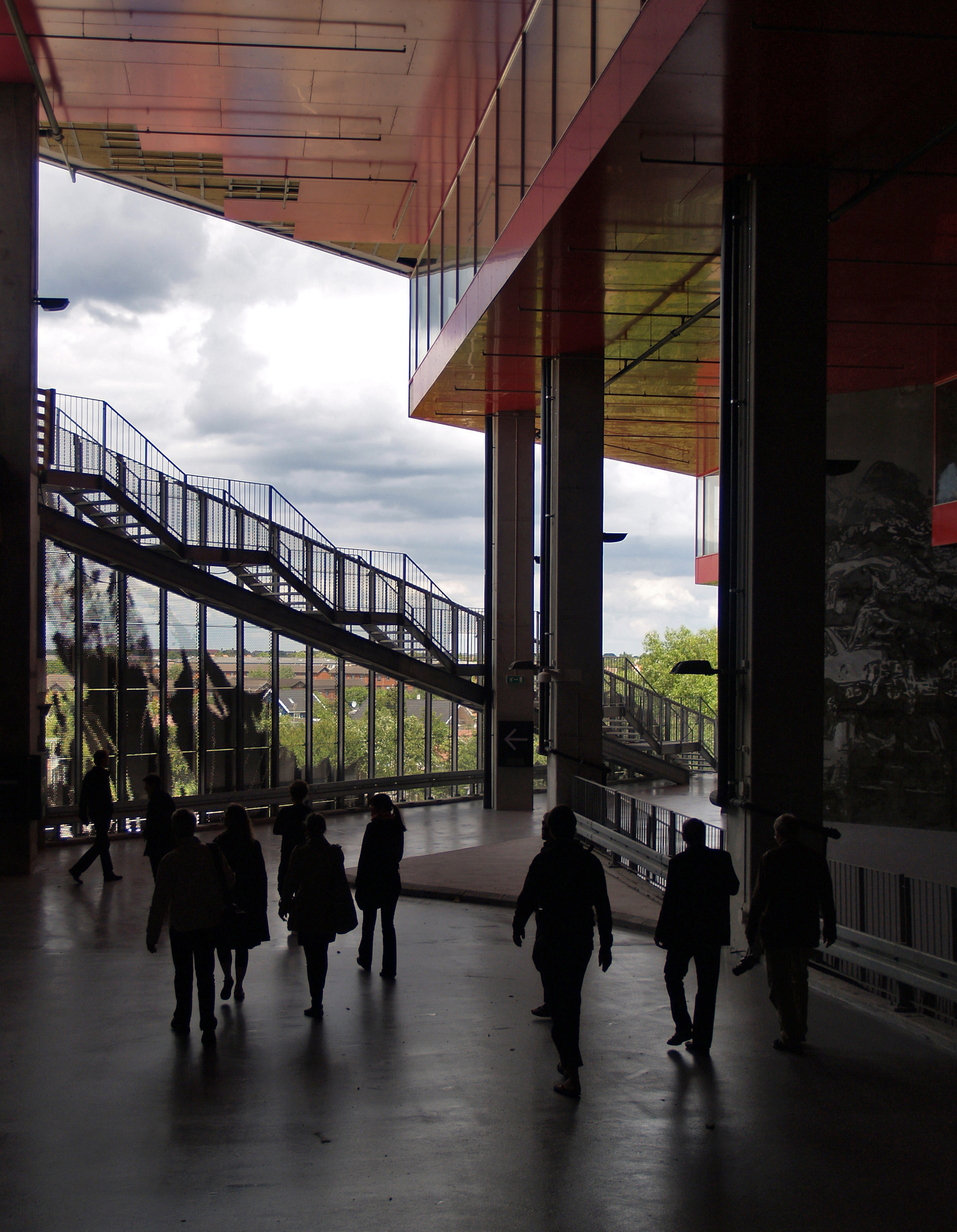 Mountain Dwellings (Danish: Bjerget), an award-winning building in the Ørestad district of Copenhagen, Denmark.